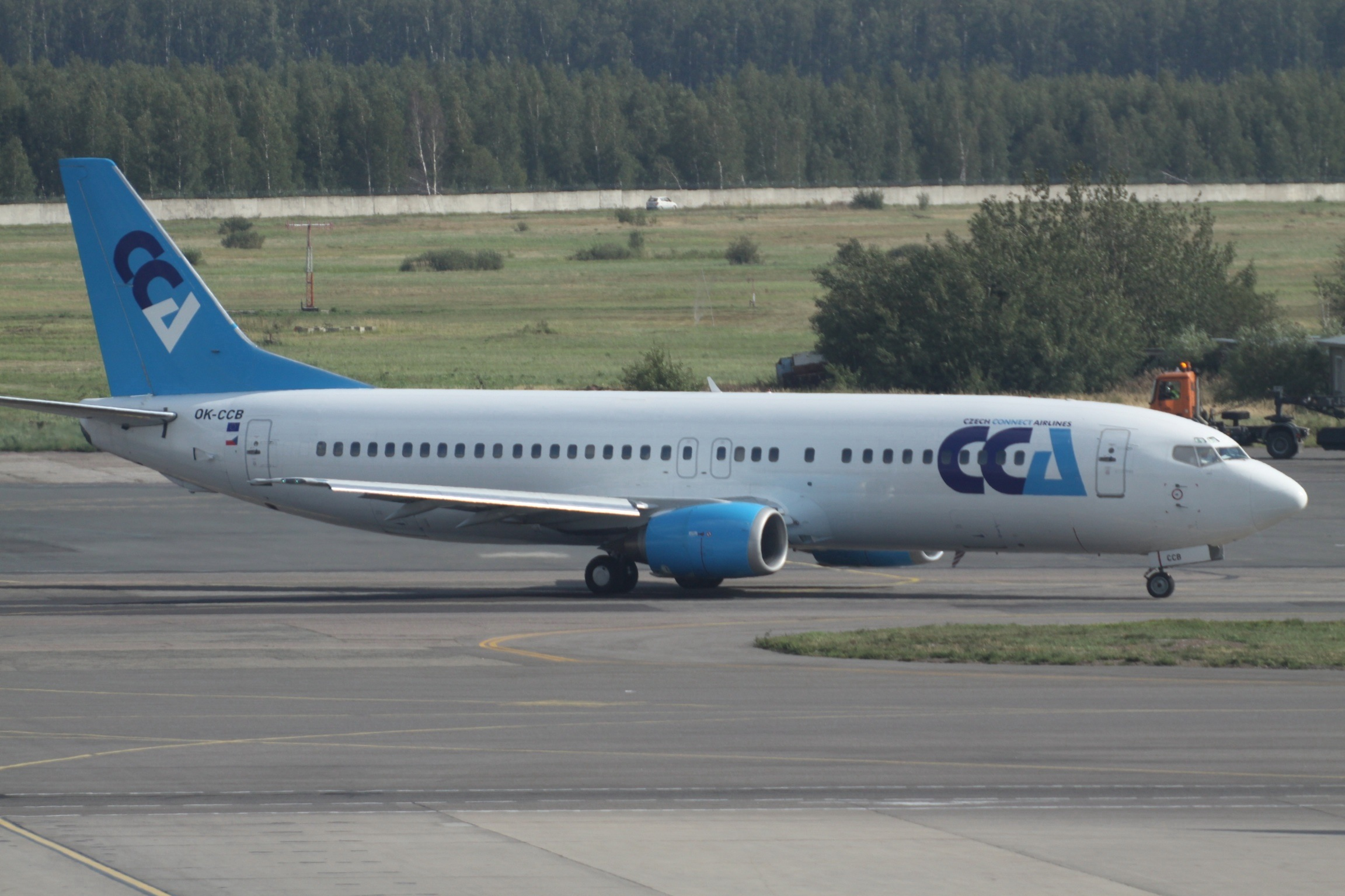 At Moscow Domodedovo